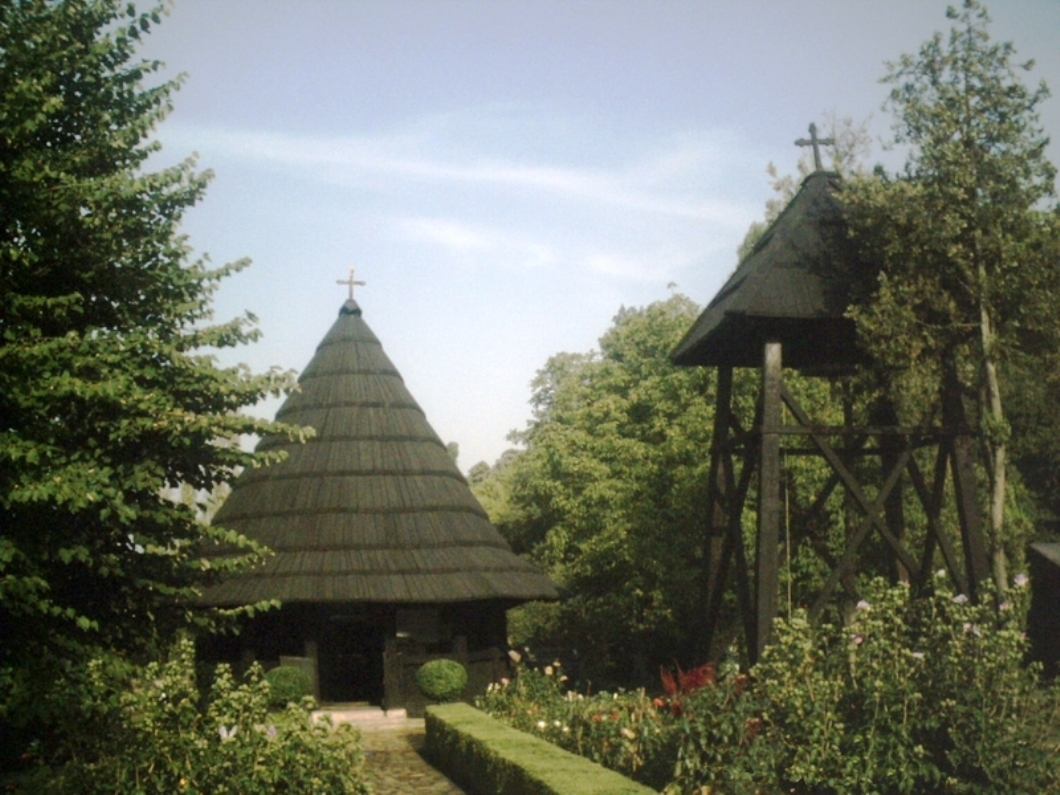 Pokajnica Monastery